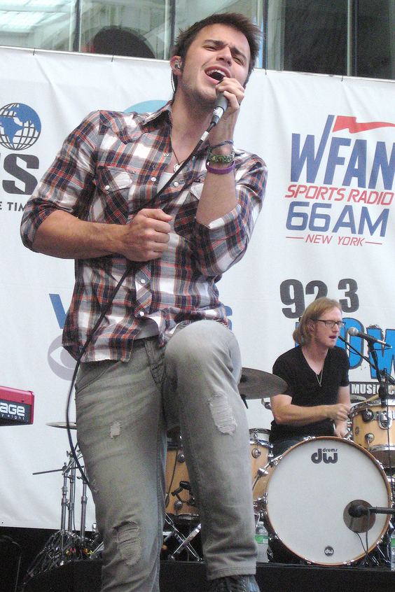 Kris Allen at the Yankee Stadium, New York City